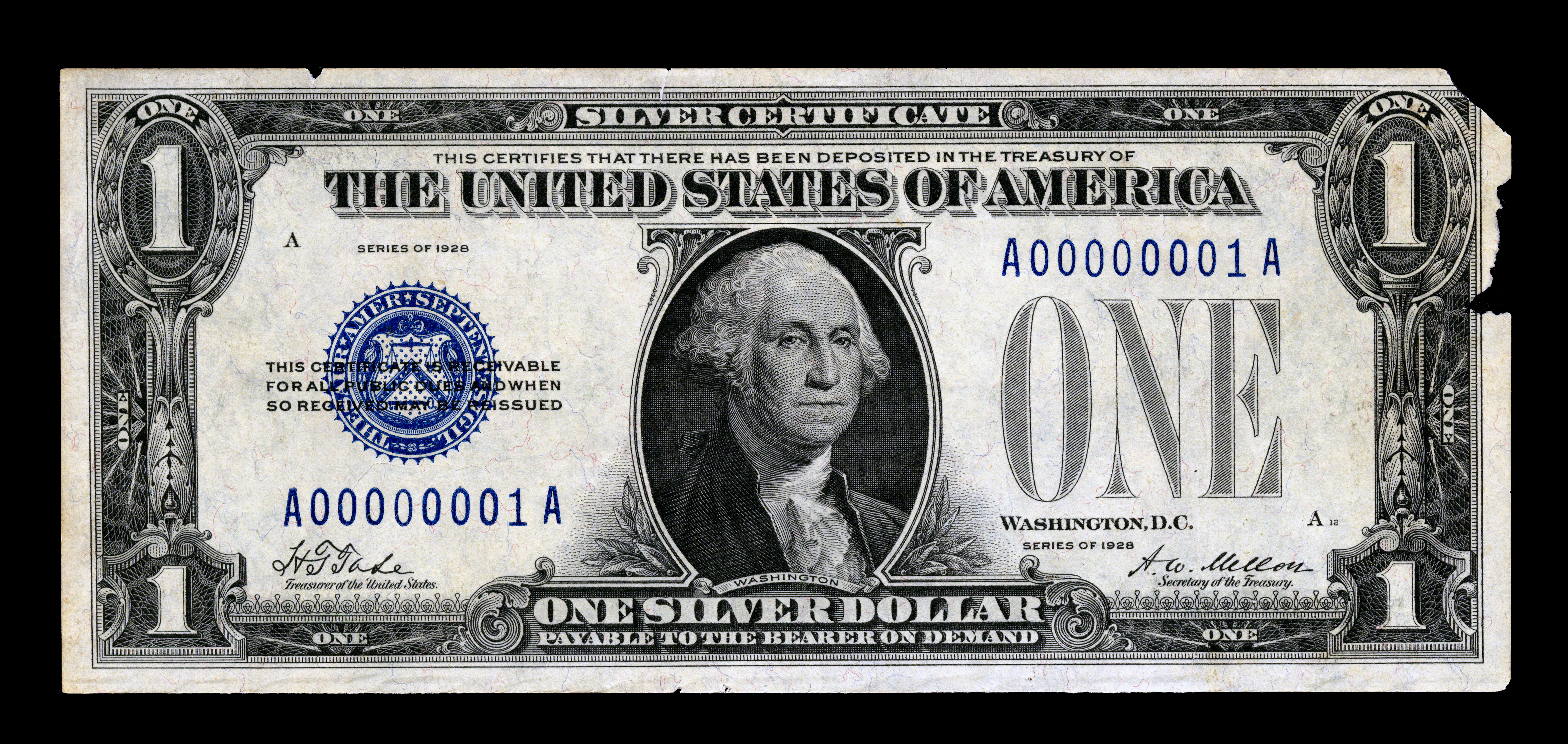 The very first small size issued $1 bill (1928). Signatures of Harold Theodore Tate and Andrew W. Mellon.